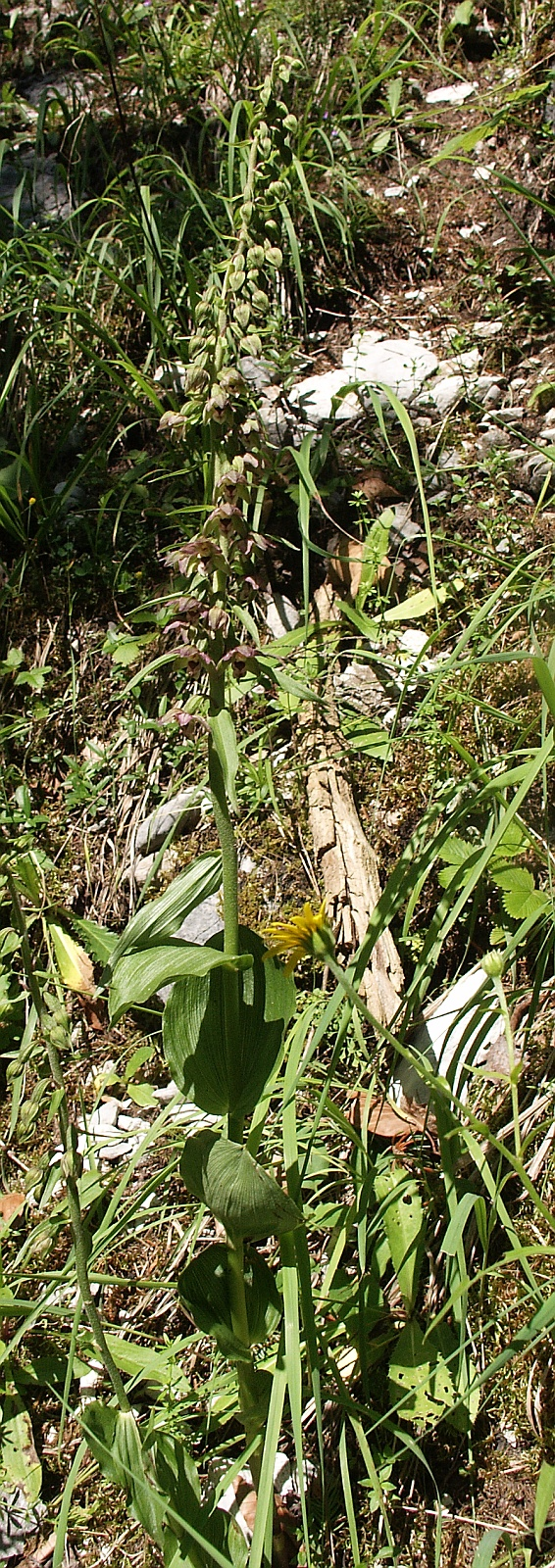 Epipactis distans, (syn. Epipactis helleborine subsp. distans), Berchtesgadener Alpen, Germany